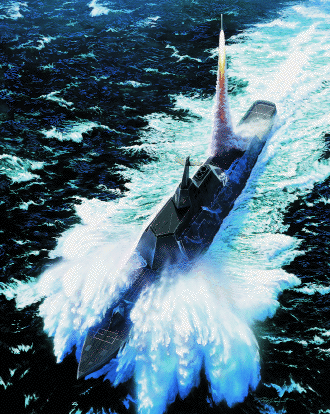 Missile being launched from surfaced submarine. An artist rendition of Navy’s “Arsenal Ship” concept.